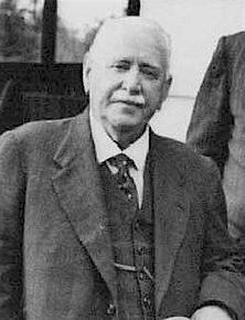 James Menzies at the age of 76, in Canberra for the opening of the first parliament of his son's prime ministership.